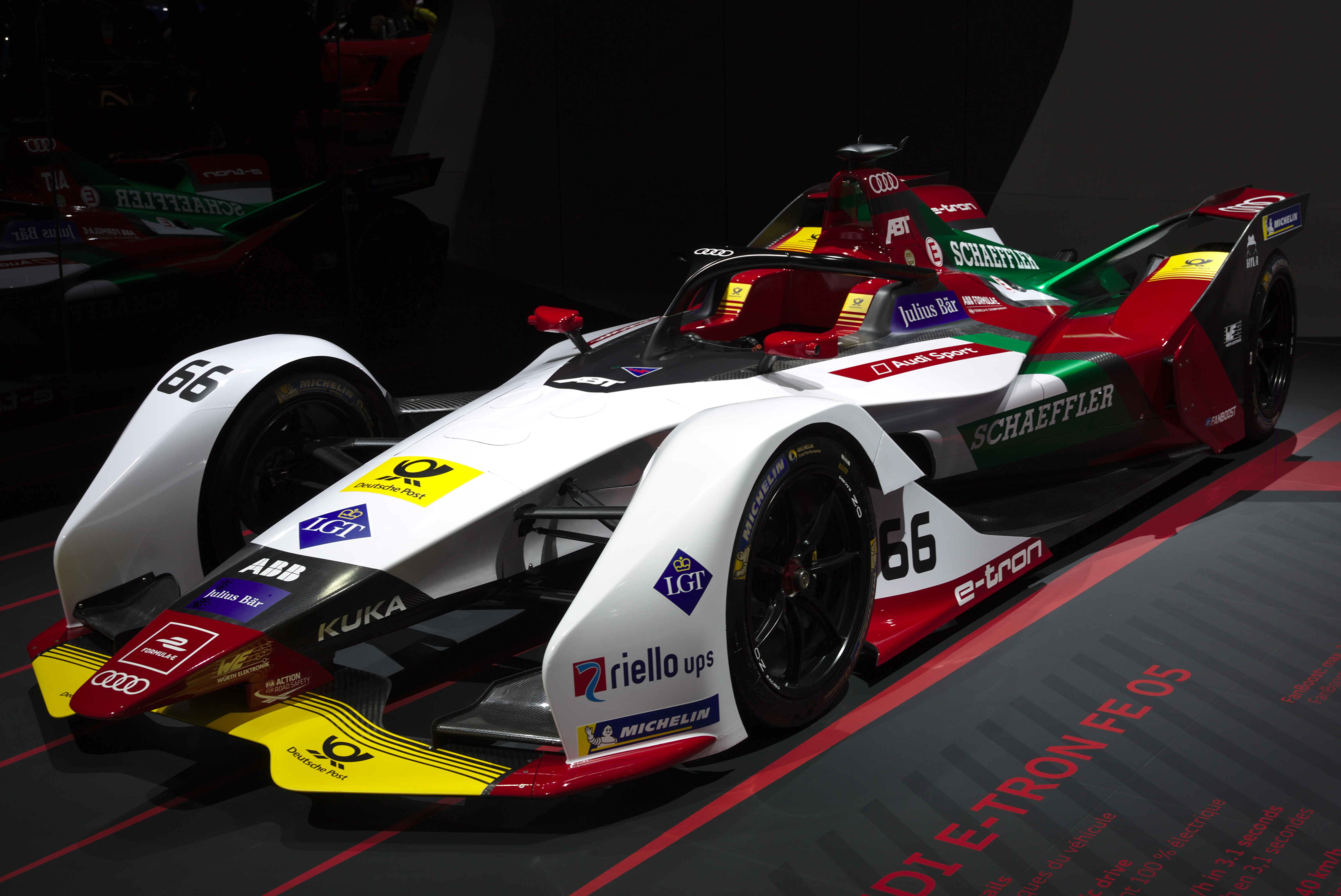 Audi e-tron FE05 at Geneva Motor Show 2019